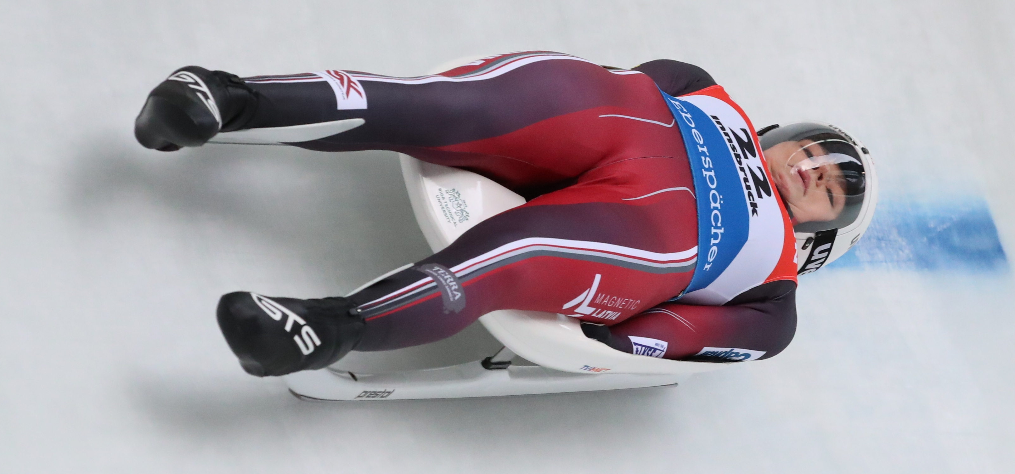 Women's World Cup race at the 2019/20 Luge World Cup in Innsbruck-Igls